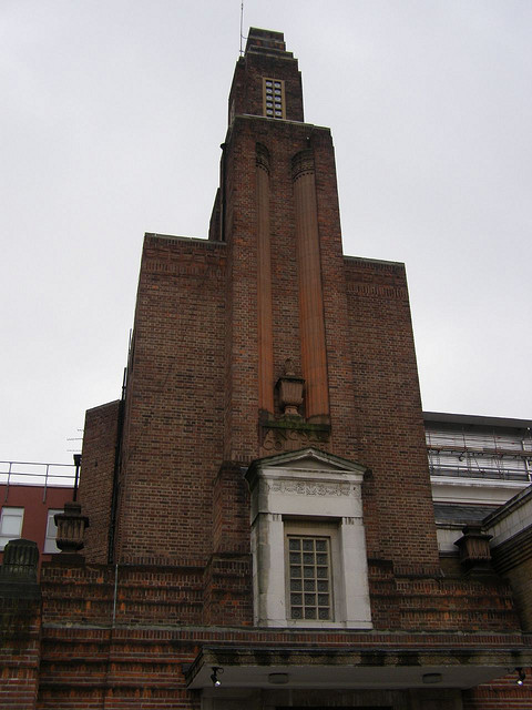 Entrance to the guthrie clinic